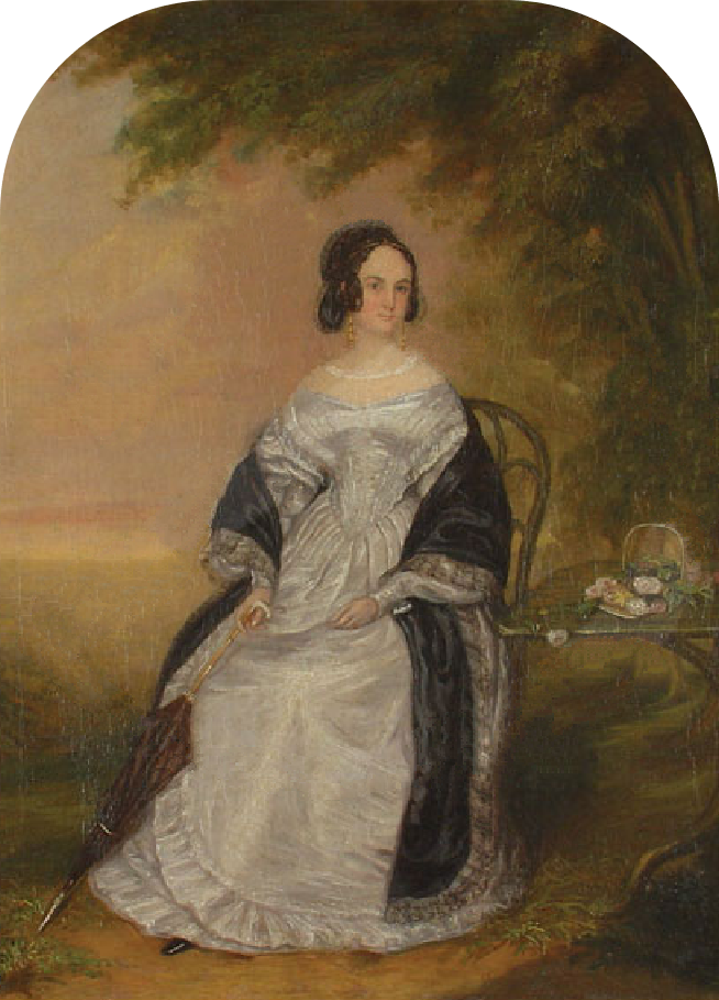 The Countess of Belmonte, in a 19th-century painting